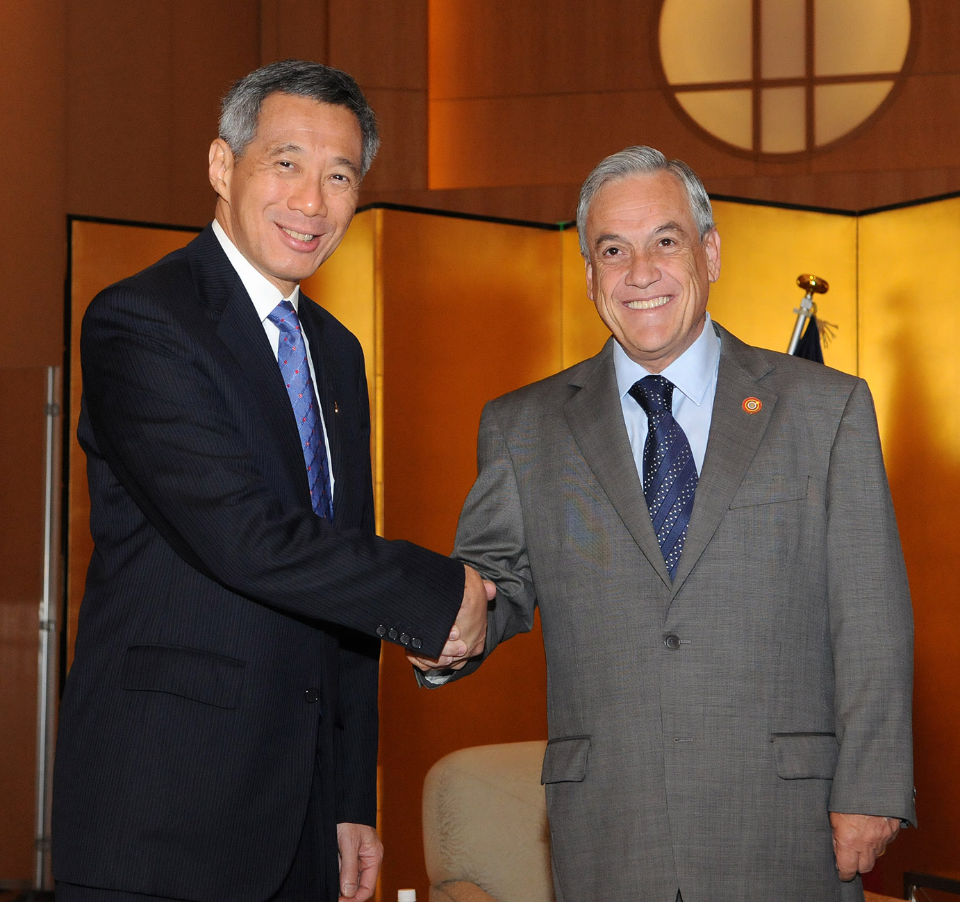 The President of Chile, Sebastián Piñera, with Prime Minister of Singapore Lee Hsien Loong at a bilateral meeting during Piñera's tour of Asia.